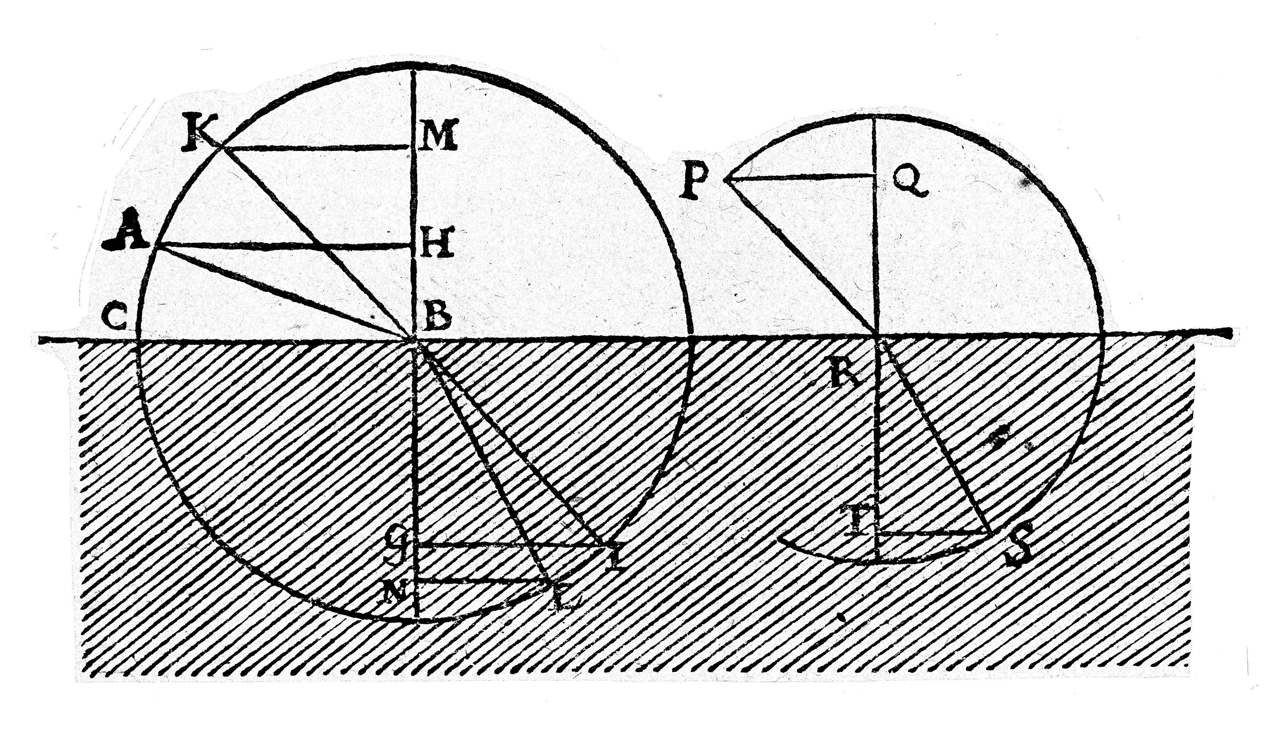 Illustrating Sine Law of Refraction. From La Dioptrique Rare Books Keywords: Rene Descartes; Physics; Optics